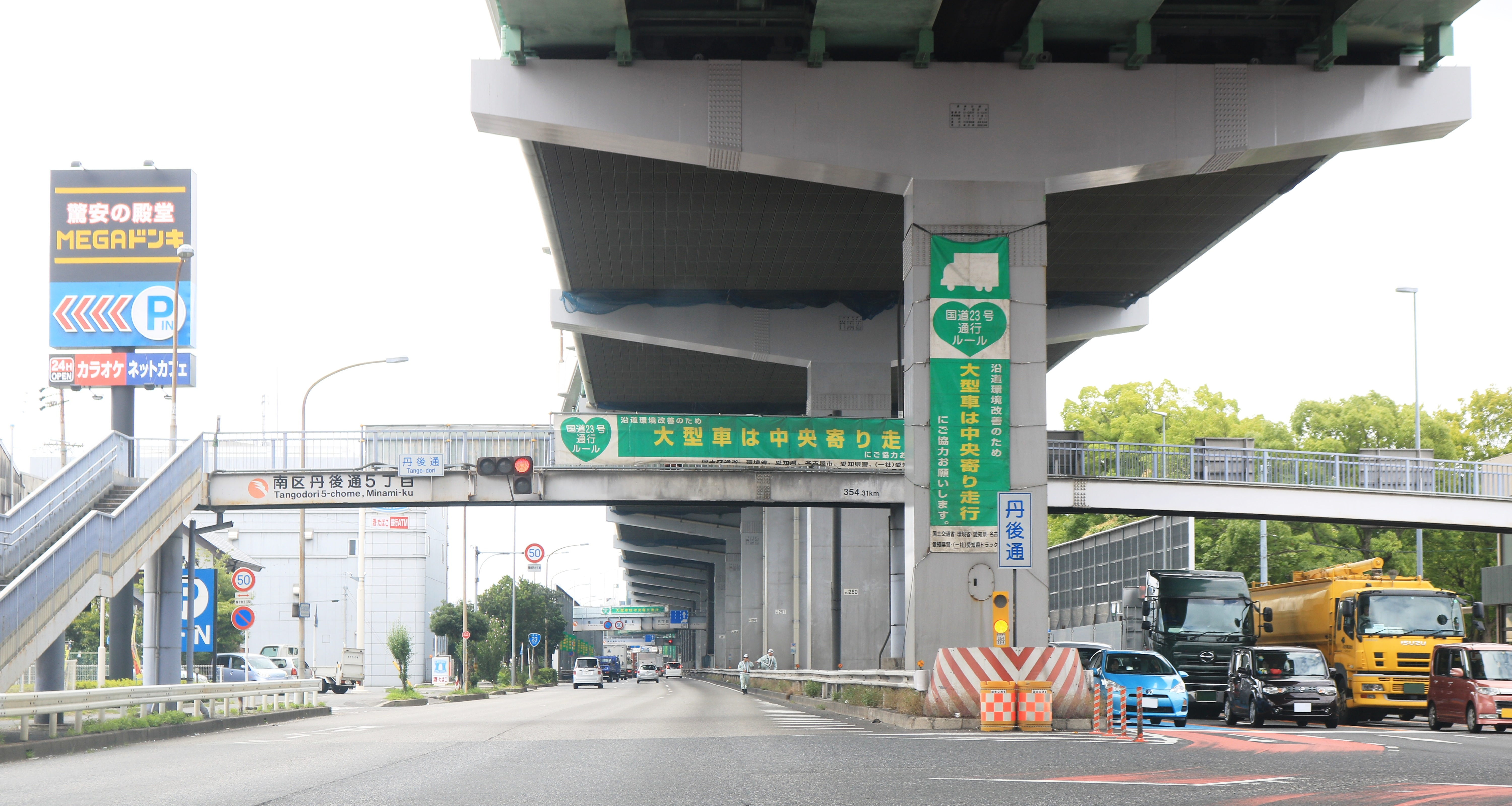 Route 23 and Nagoya Expressway Route 3 in Tangodori, Minami-ku, Nagoya, Aichi Prefecture, Japan.